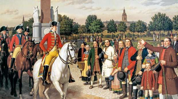 Painting depicting farmers thanking king Christian VII, and crown prince Frederik at Frihedsstøtten in Copenhagen, Denmark. Painted by Eckersberg in connection with the 50 years aniversary for the abolishion of SStavnsbåndet.